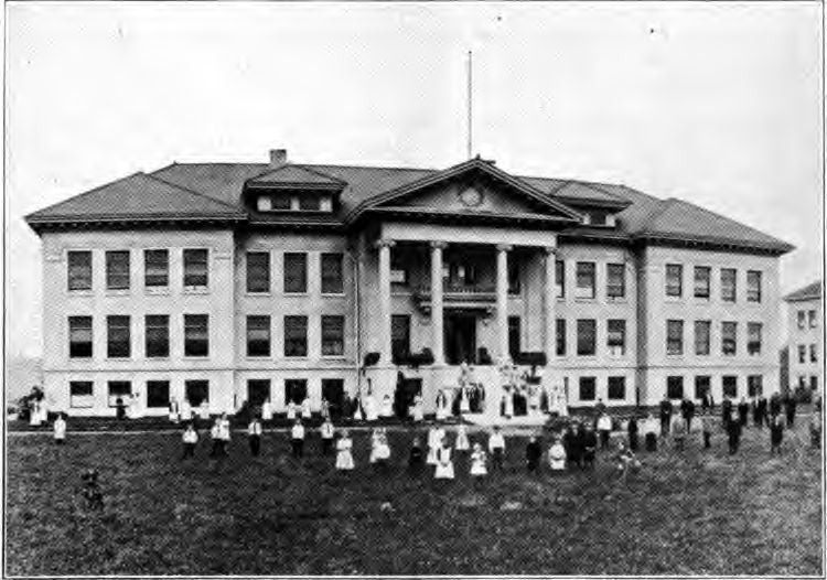 Oregon School for the Deaf in Salem, Oregon circa 1920